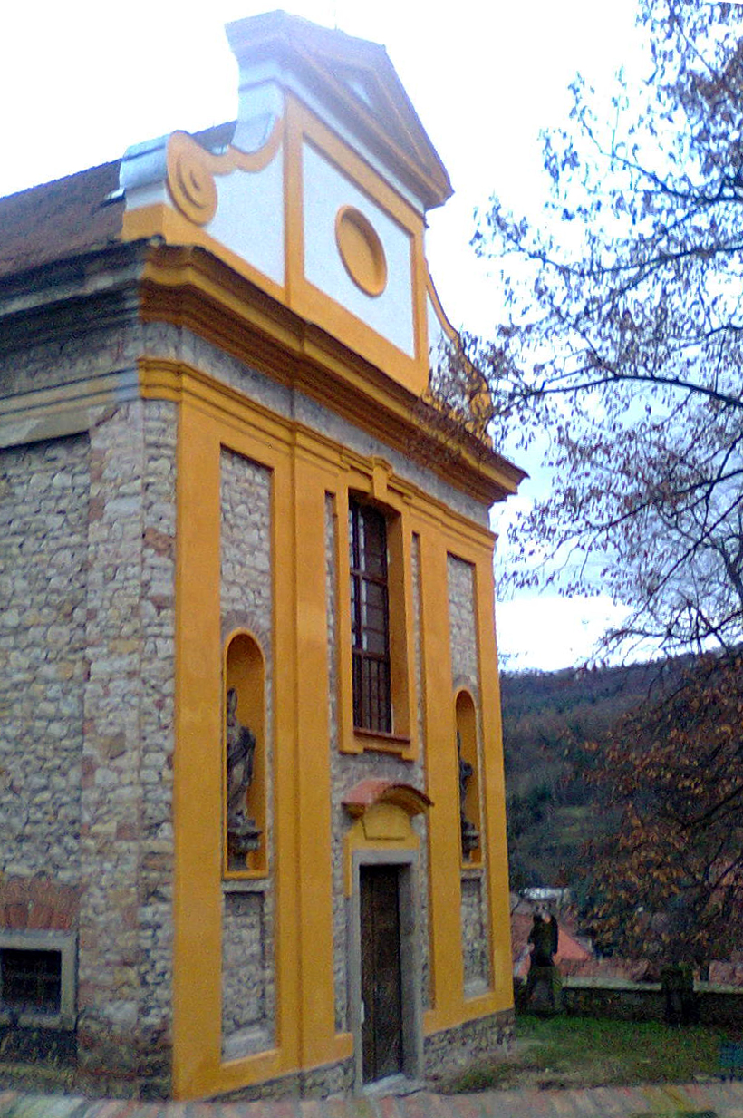 West frontage of the church in Hřivice